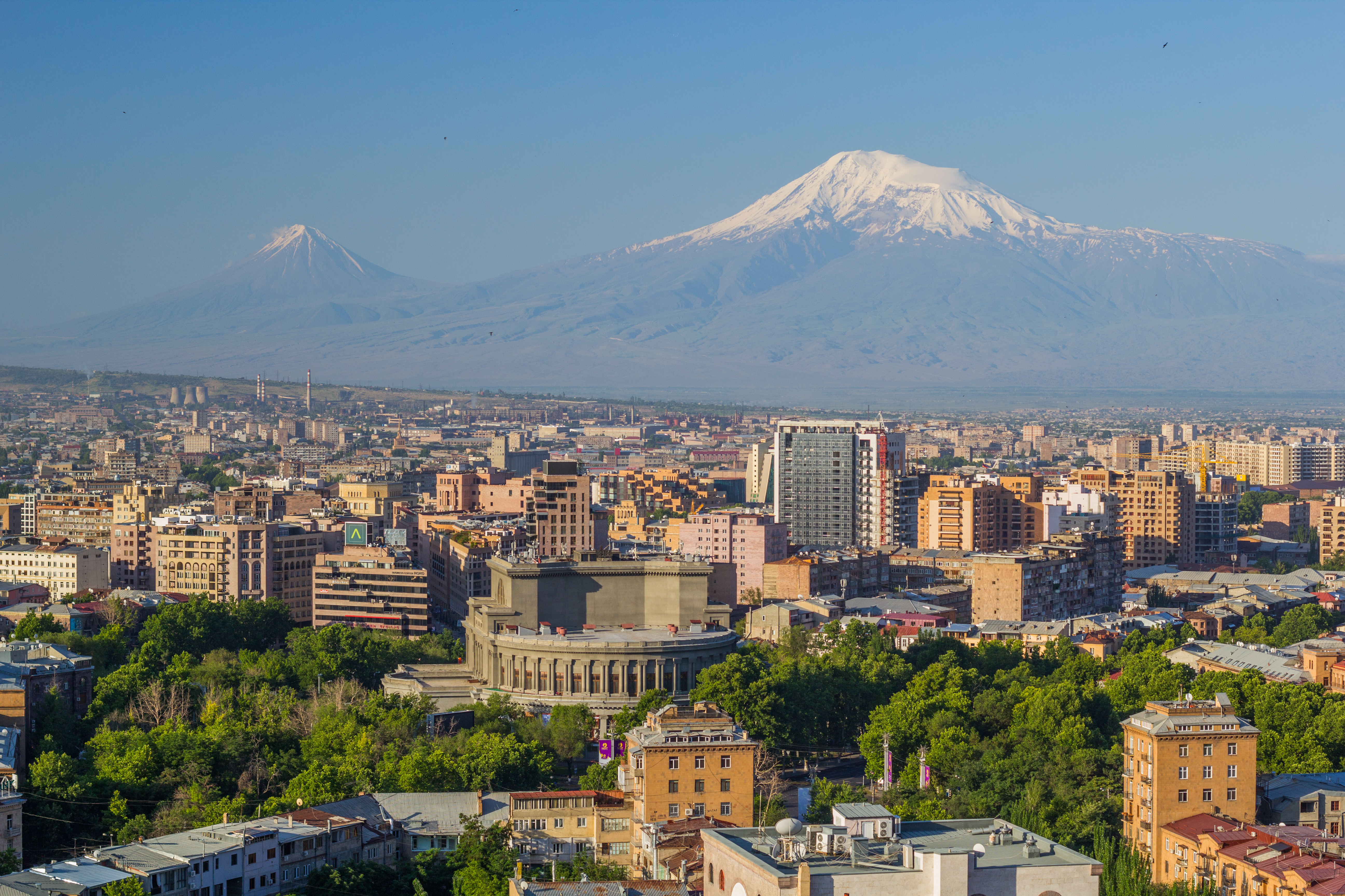 Mount Ararat and the Yerevan skyline in spring. The Yerevan Opera Theatre is visible in the center.